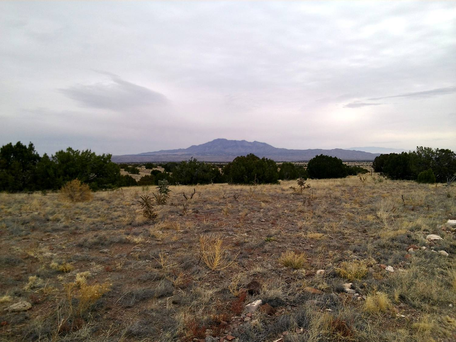 The view from the Bear Mountains to the east, toward the Sierra Ladrones BLM Wilderness Study Area.